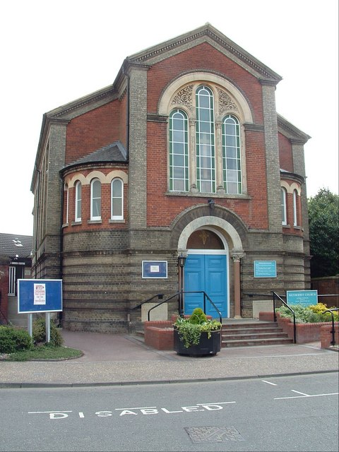 Wymondham Methodist Chapel This was built as a Primitive Methodist chapel originally. There was also a Wesleyan Methodist chapel, now reused as the Freemasons' Hall.